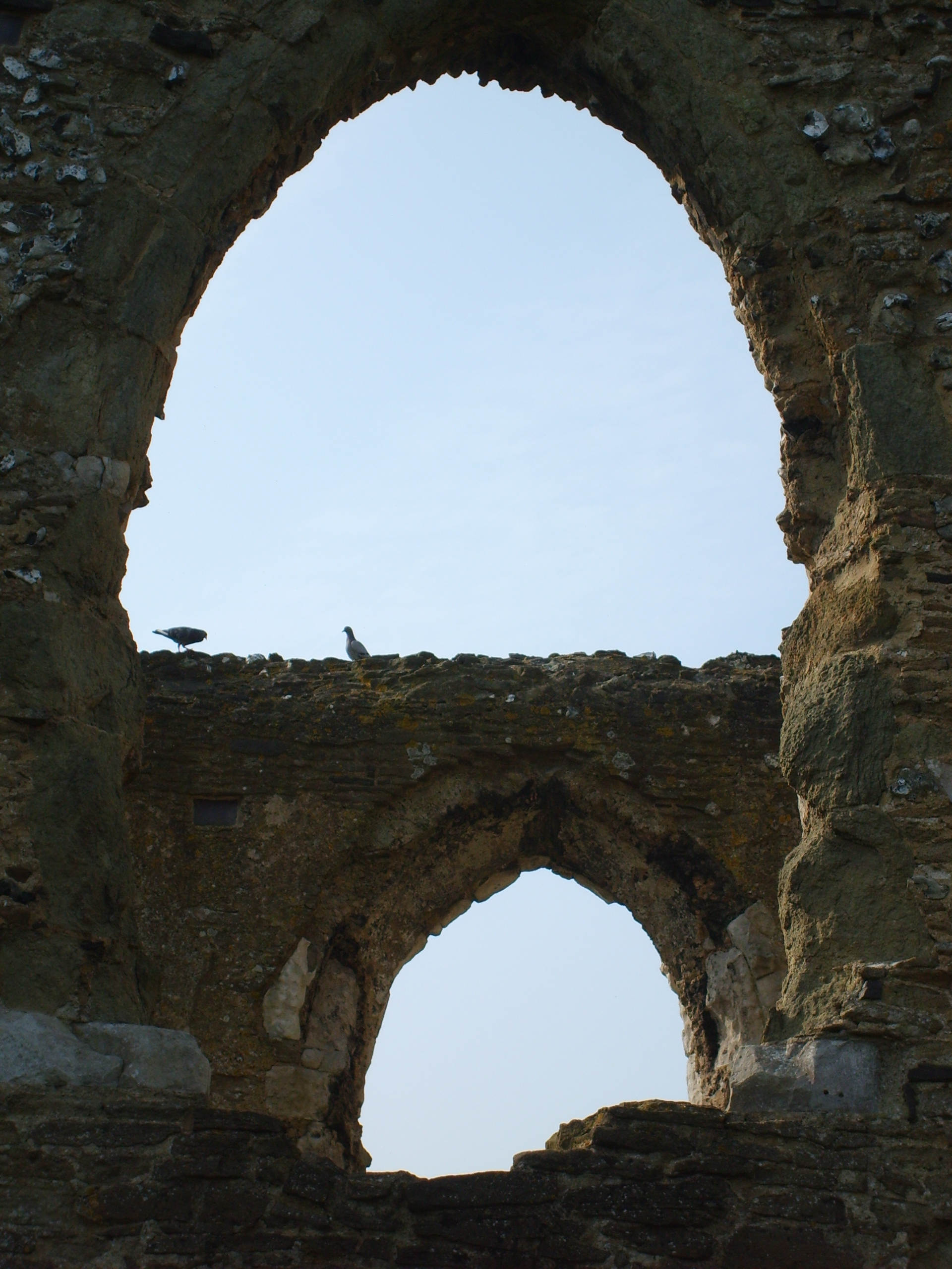 St. Catherine's Hill, Guildford, Surrey, UK.